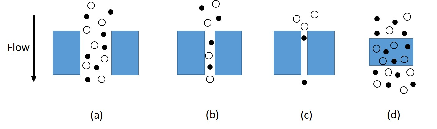 (a) Bulk flow through pores; (b) diffusion through pores; (c) restricted diffusion through pores; (d) solution diffusion through dense membranes.